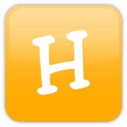 Hyves Logo